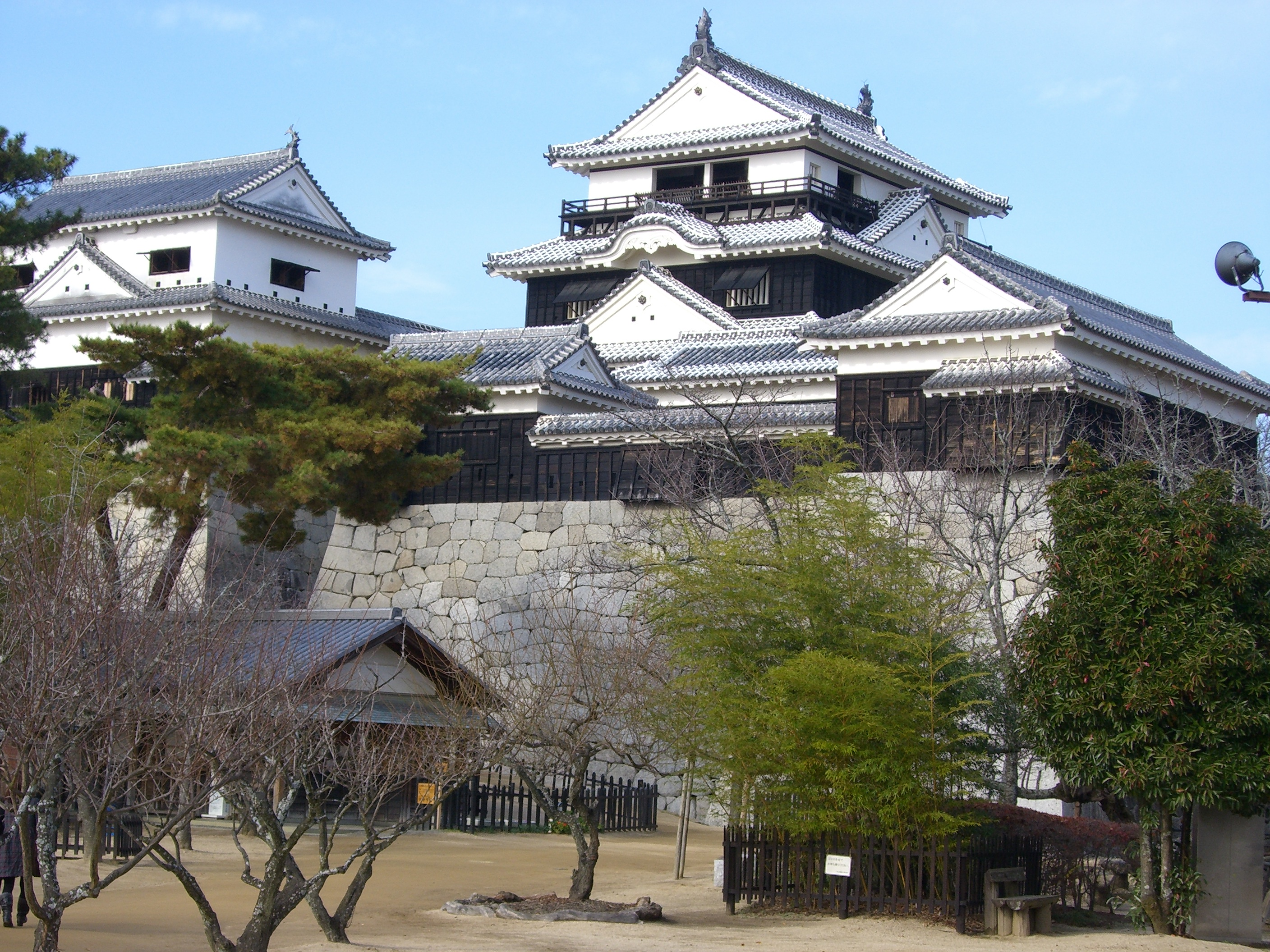 Matsuyama Castle Tower (Iyo) of winter. (Ehime, JAPAN)